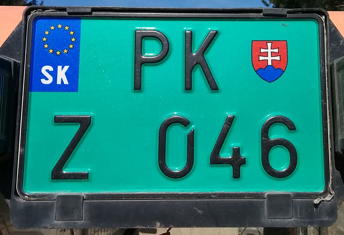 Type Z lIcense plate of Slovakia.